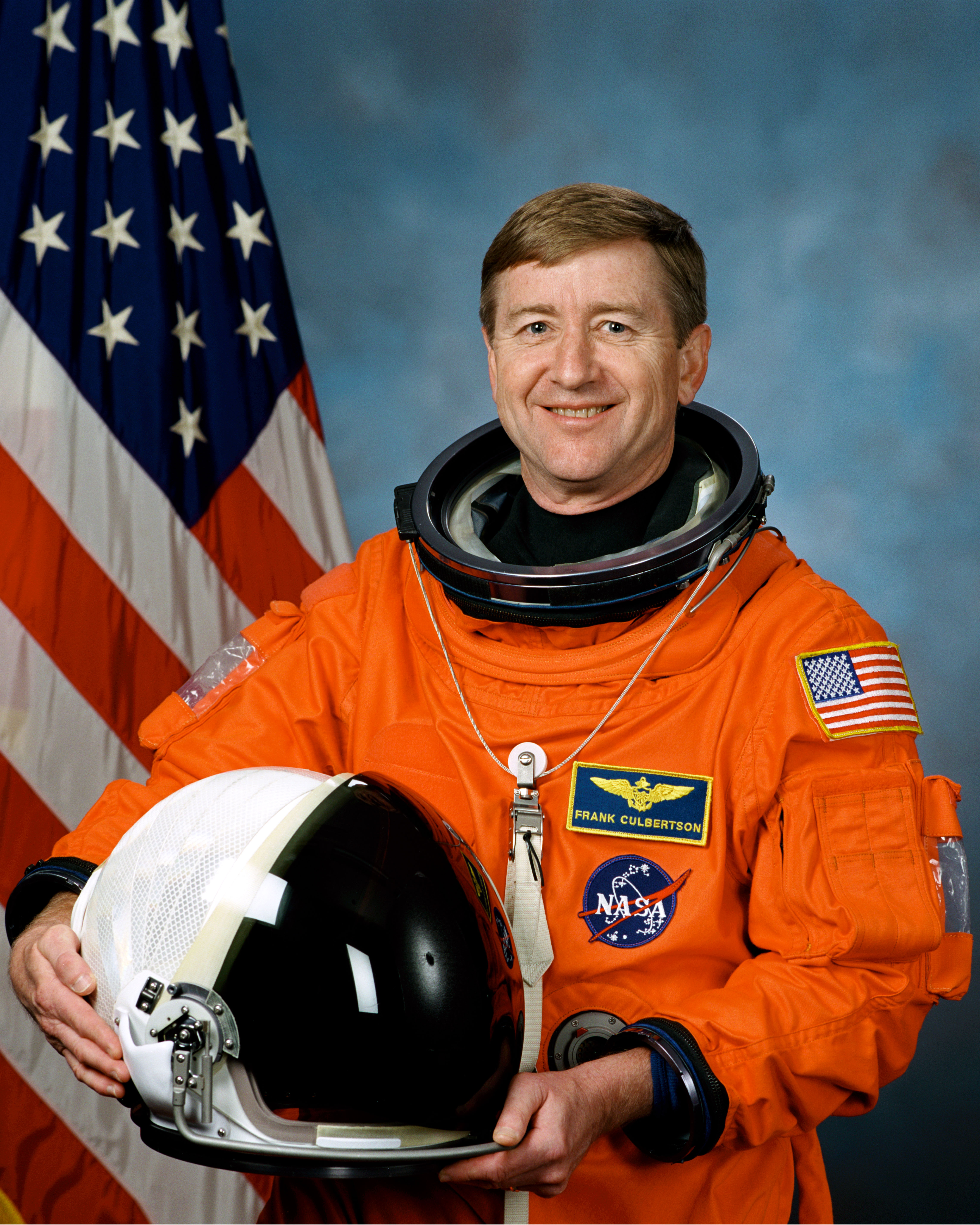 JSC2001-01342 (21 February 2001) --- Astronaut Frank L. Culbertson, Jr., mission commander (Editor's Note: Named as Expedition Three commander in September of 1999, Culbertson will be joined by two cosmonaut flight engineers representing Rosaviakosmos when they assume seats on the STS-105 mission, scheduled later this year).